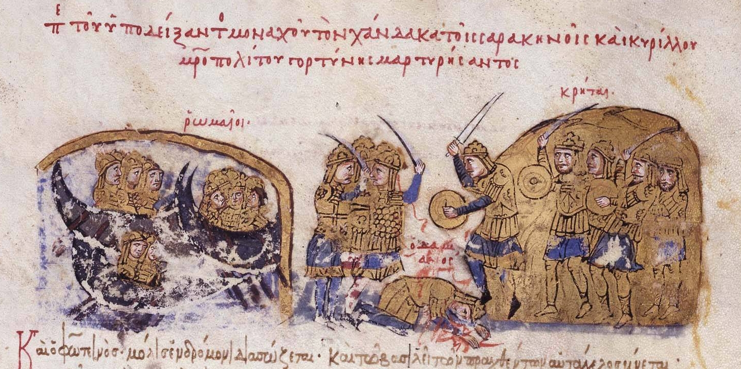 The Cretan Saracens defeat the Byzantines under Damianos